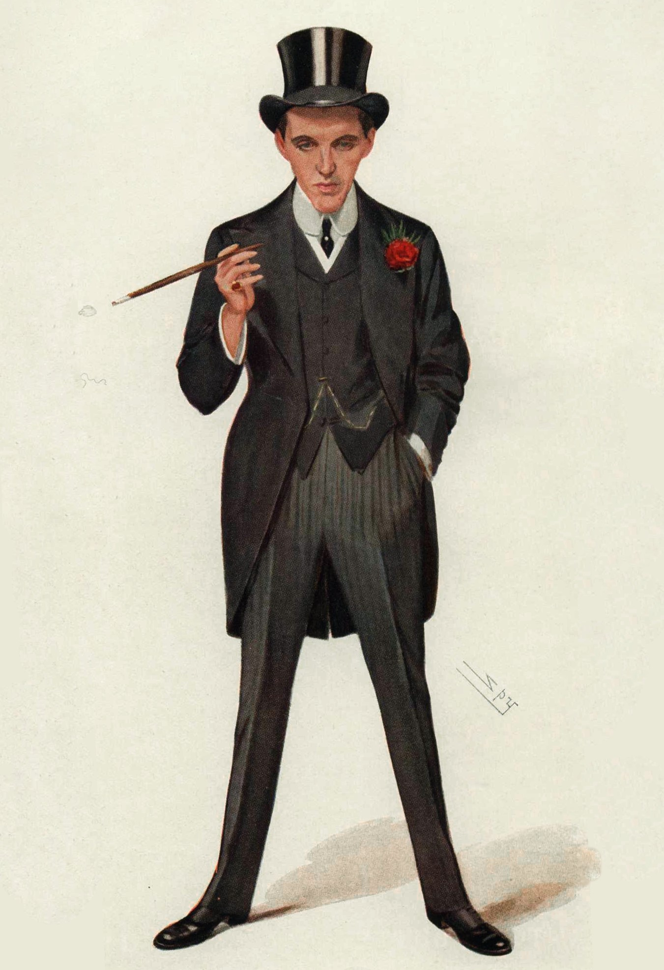 Caricature of F.E. Smith (later Earl of Birkenhead). Caption reads "A Successful First Speech ("Moab is my Washpot")". (This refers to Psalm 108).